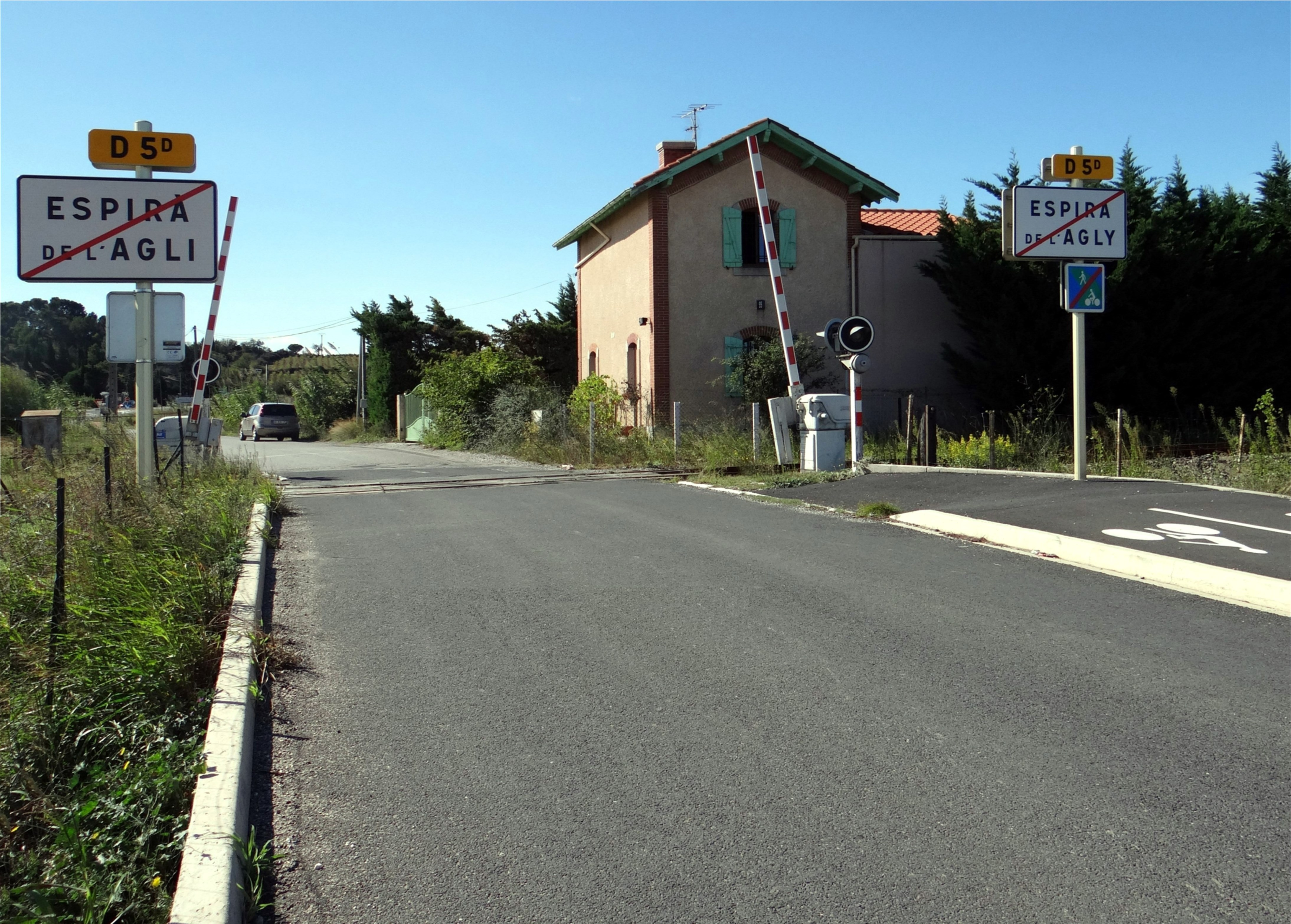 Crossing the railway line of the Cathare country and Fenouillèdes on the RD 5D output Espira-de-l'Agly, Pyrenees-Orientales, France.